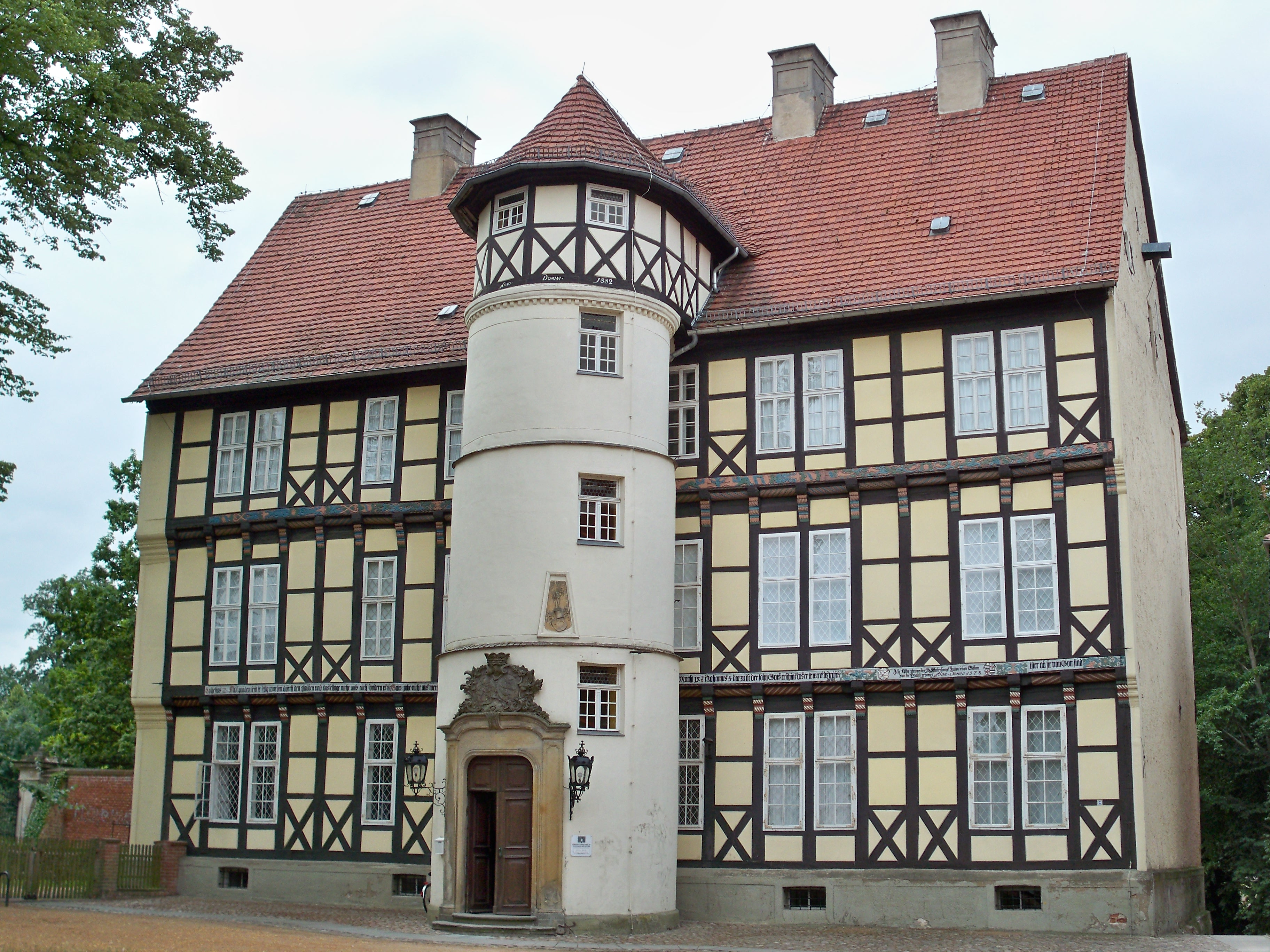 Danneil museum in Salzwedel